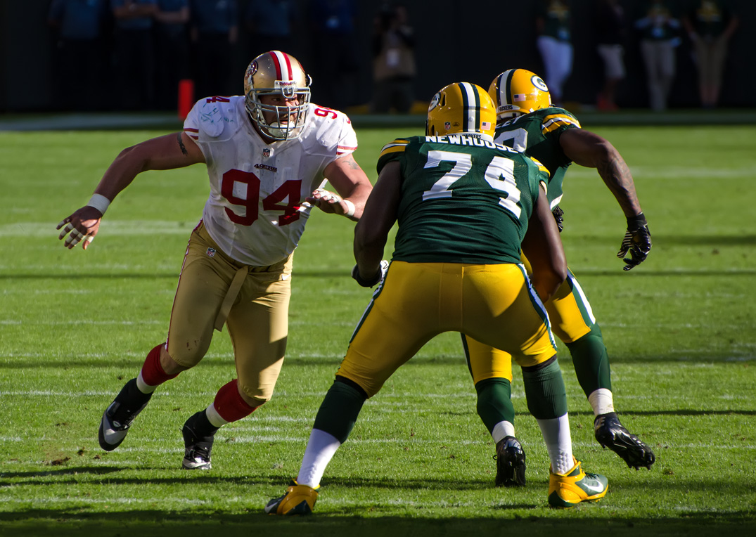 San Francisco 49ers vs. Green Bay Packers at Lambeau Field on September 9, 2012. Photo by Mike Morbeck.